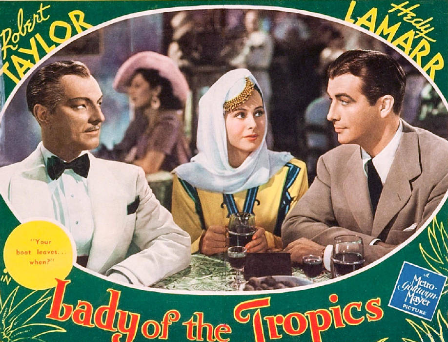 Lobby card from the 1939 film Lady of the Tropics.